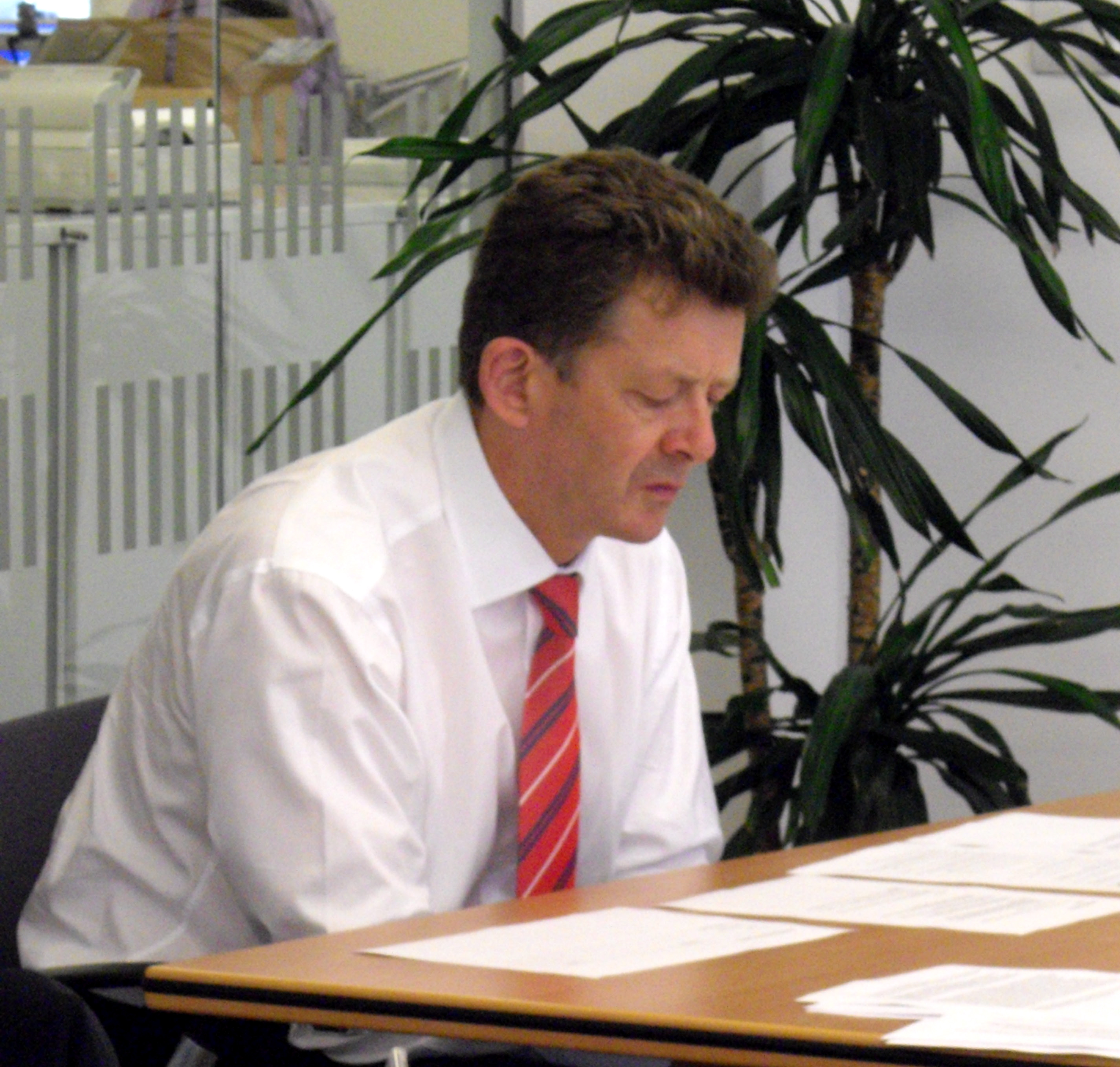 EG Awards judging panel - Andrew Gould, JLL